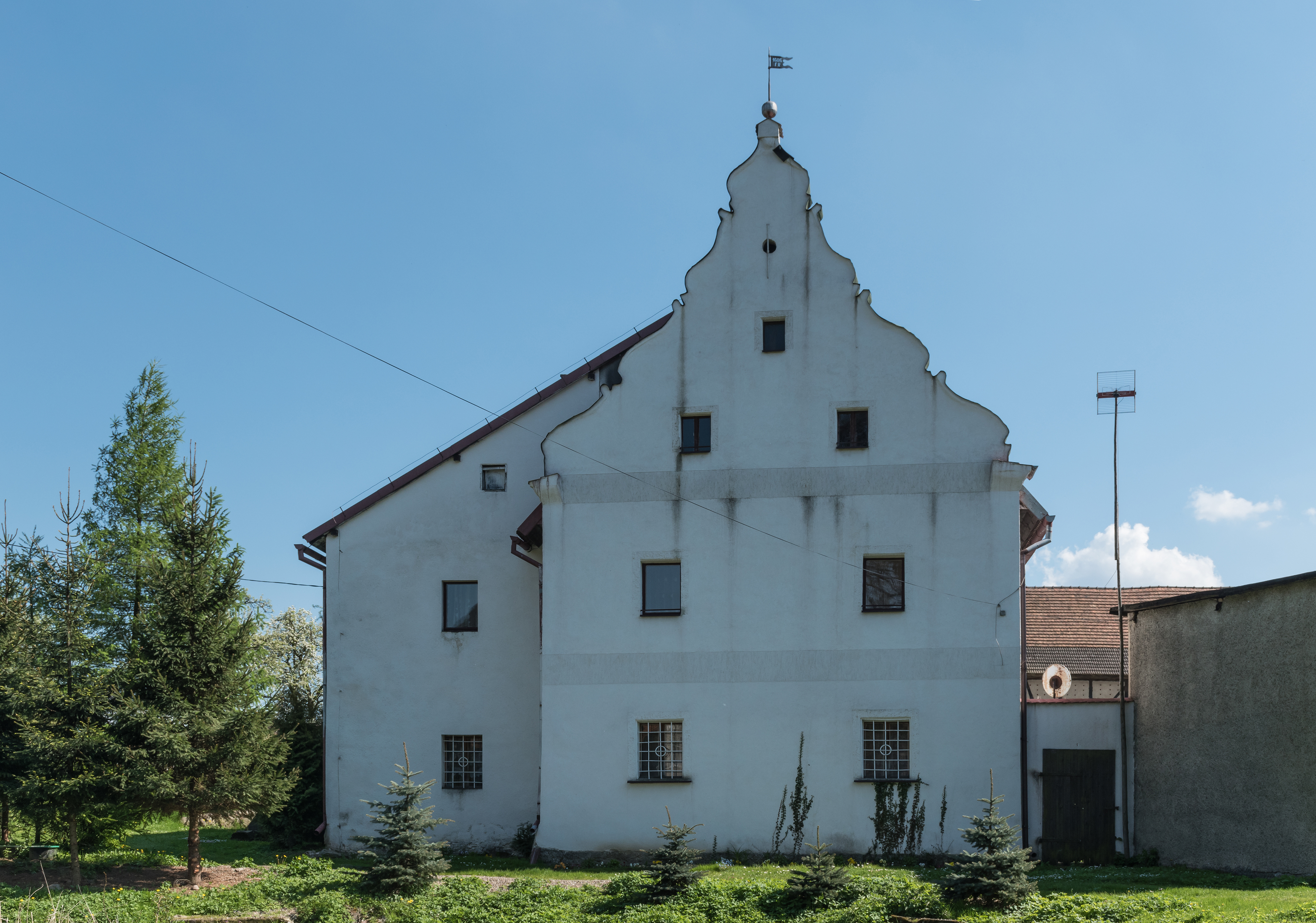 Manor in Laskówka